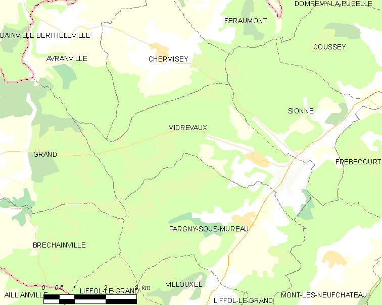 Map of French municipality Midrevaux